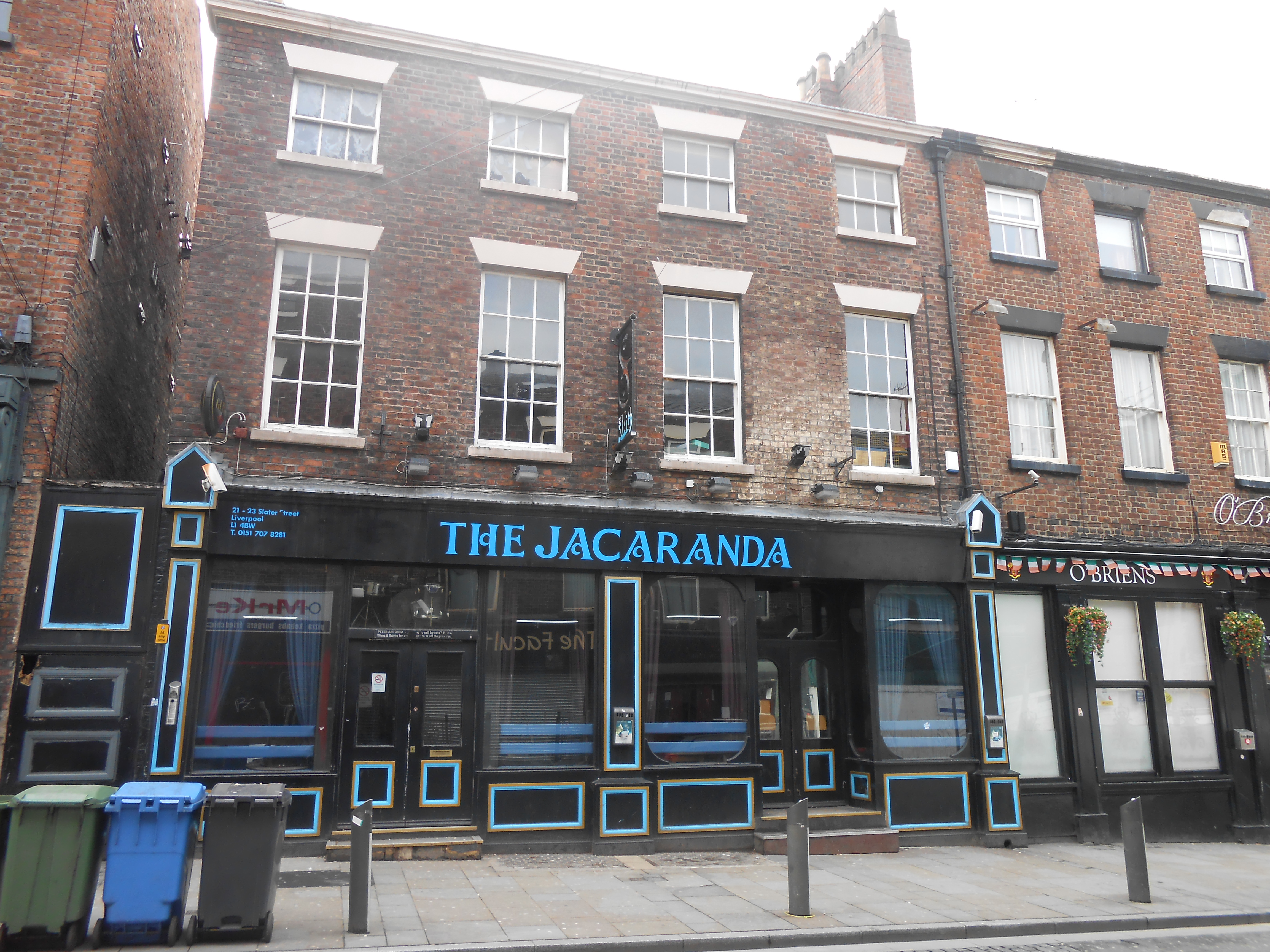 The Jacaranda, Slater Street, Liverpool, England.